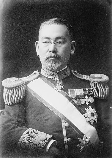 Shinpei Gotō (後藤新平, Gotō Shinpei?), (1857-1929), Japanese statesman. Photo portrait in full dress uniform.